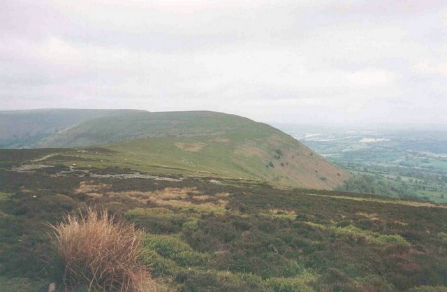 Hatterrall Ridge looking north From Hatterrall Hill, the ridge proceeds north-westwards to end at Hay Bluff. The English/Welsh border follows the crest for most of the way.